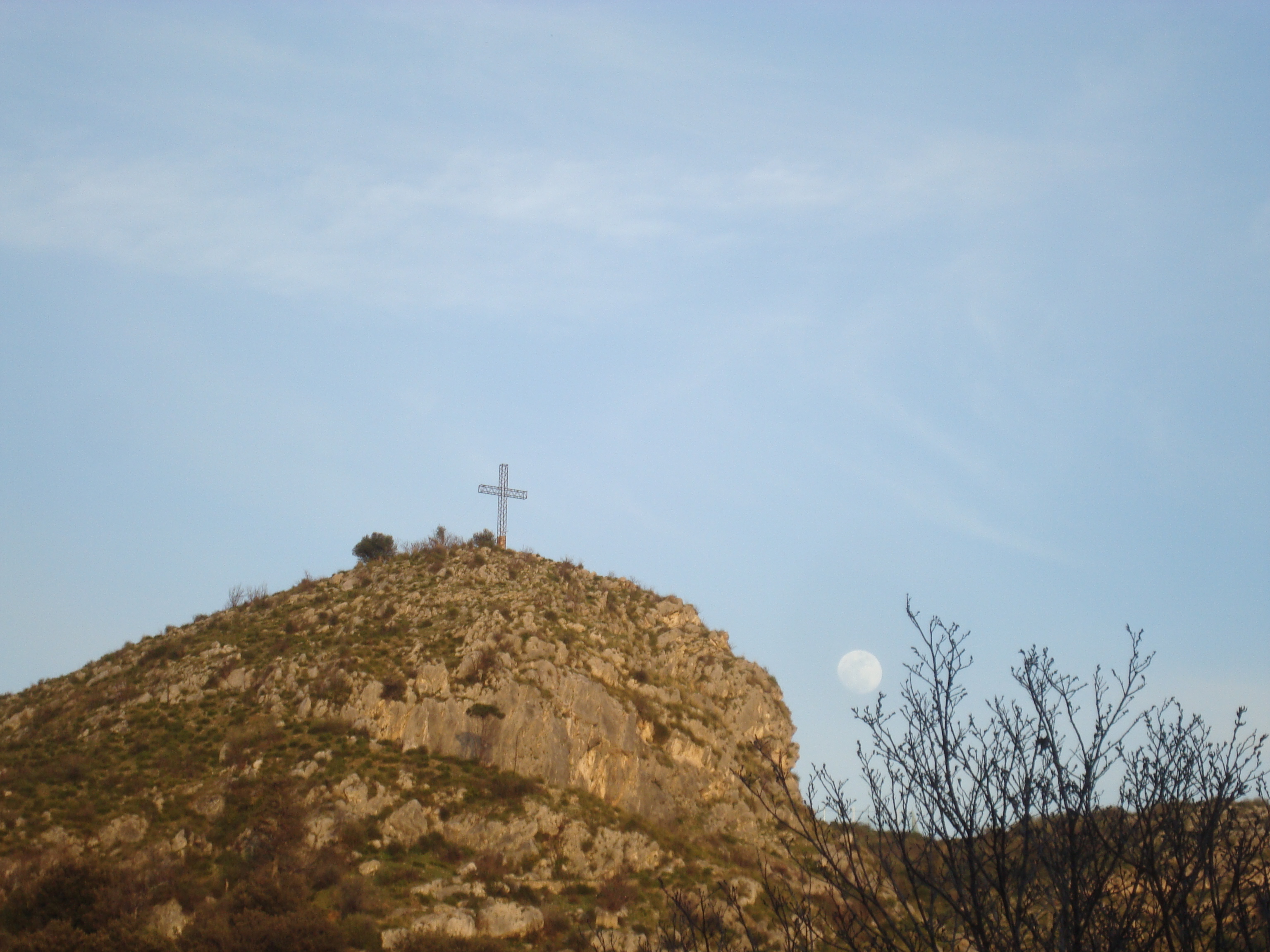 The Mount Catillo in Tivoli, one of the summits in Mounts Tiburtians